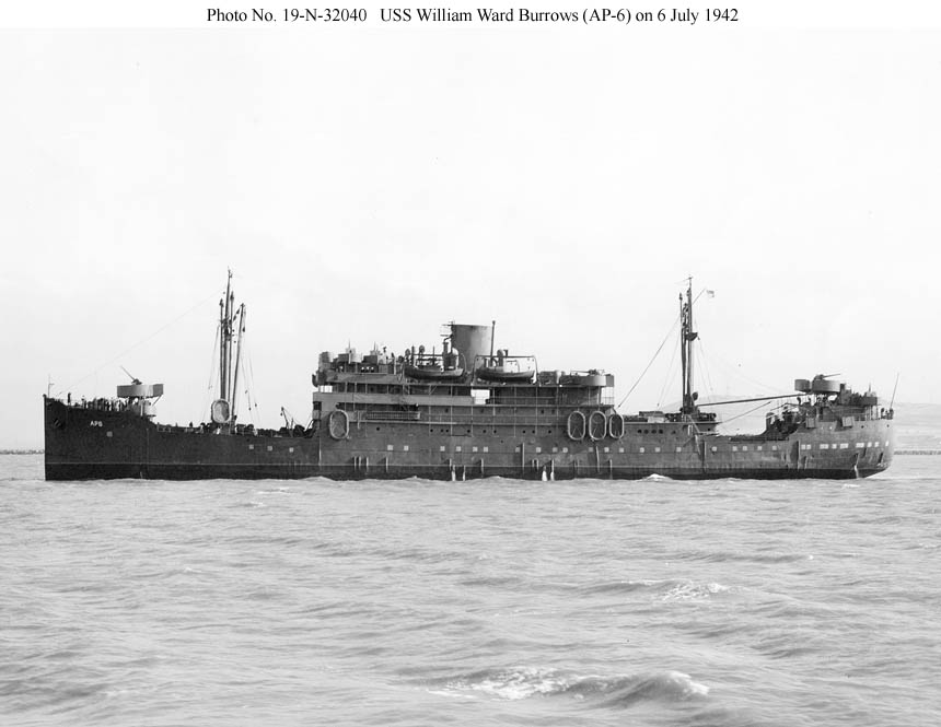 Near the Mare Island Navy Yard on 6 July 1942. Her 3"/23 guns have been replaced with 3"/50 guns and the sponson in the forward well deck for the 50-foot motor launches has been removed.